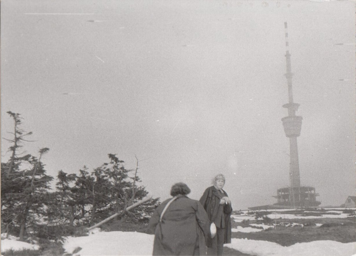 Transmiter mast on Praděd in the works, Czechoslovakia. Personality rights warningAlthough this work is freely licensed or in the public domain, the person(s) shown may have rights that legally restrict certain re-uses unless those depicted consent to such uses. In these cases, a model release or other evidence of consent could protect you from infringement claims.